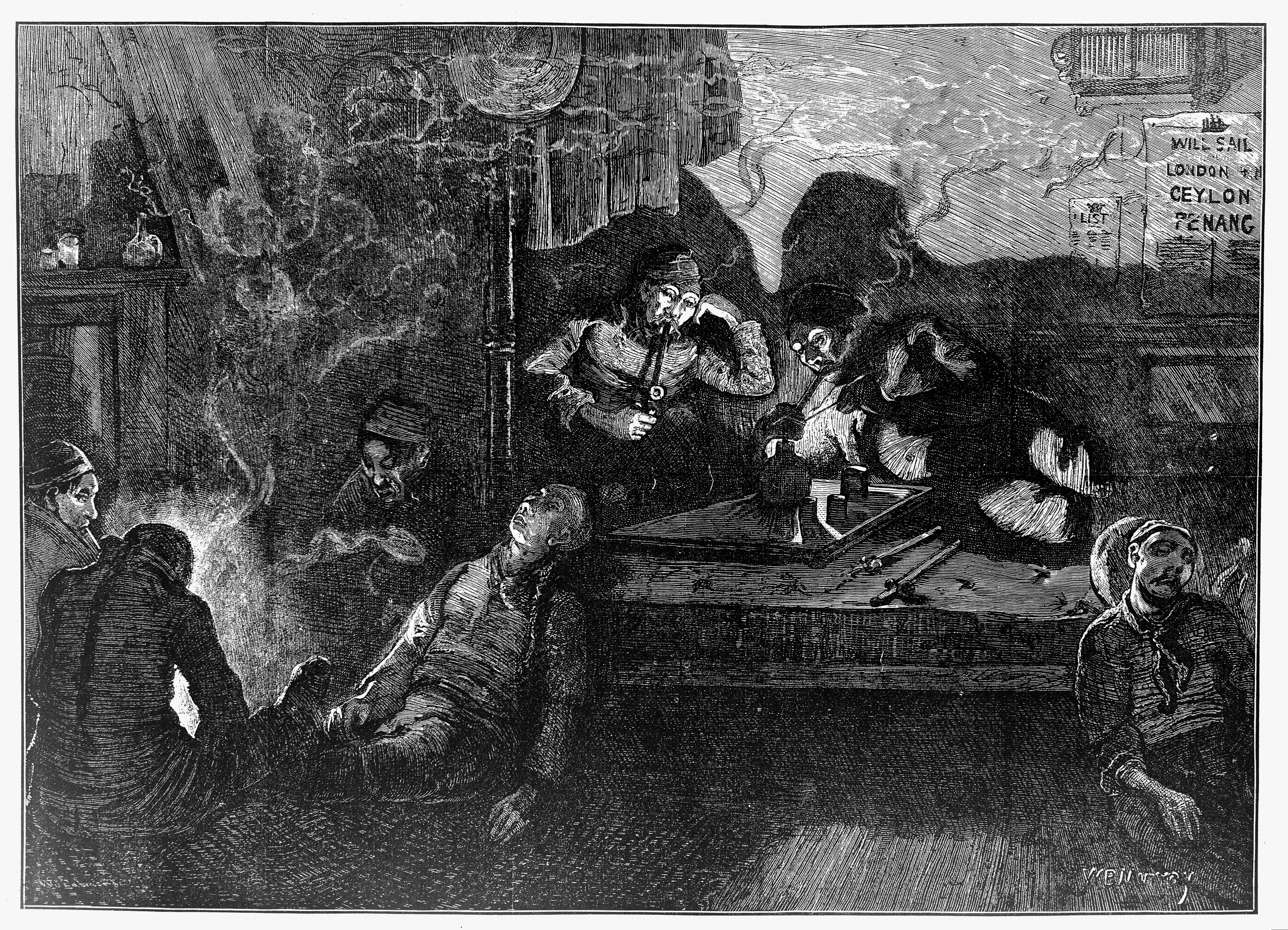 Opium-den in the East End of London General Collections Keywords: Opium